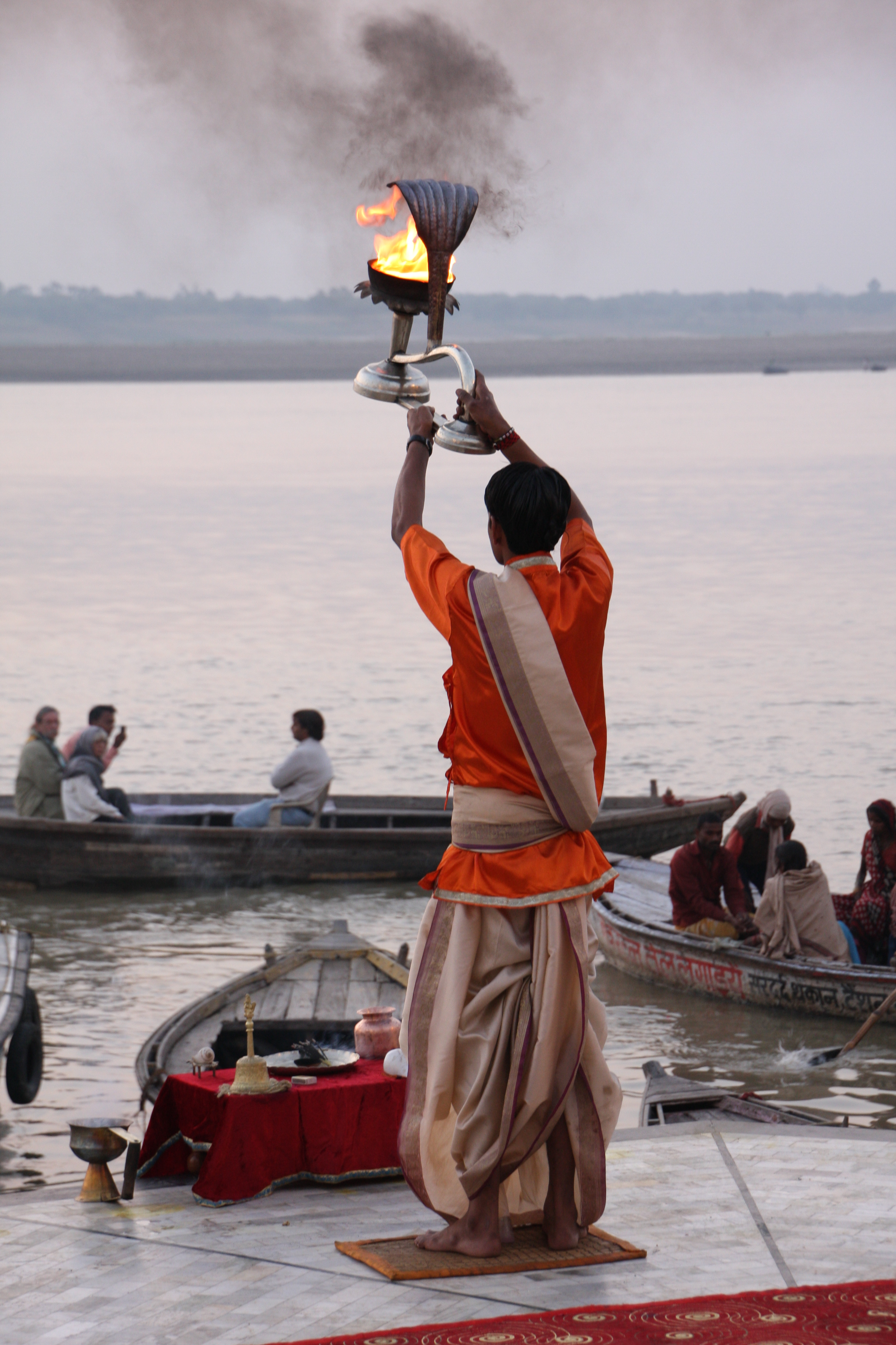 Early morning Aarti, ritualistic worship of the Ganges, at the banks of the Ganges in Varanasi.